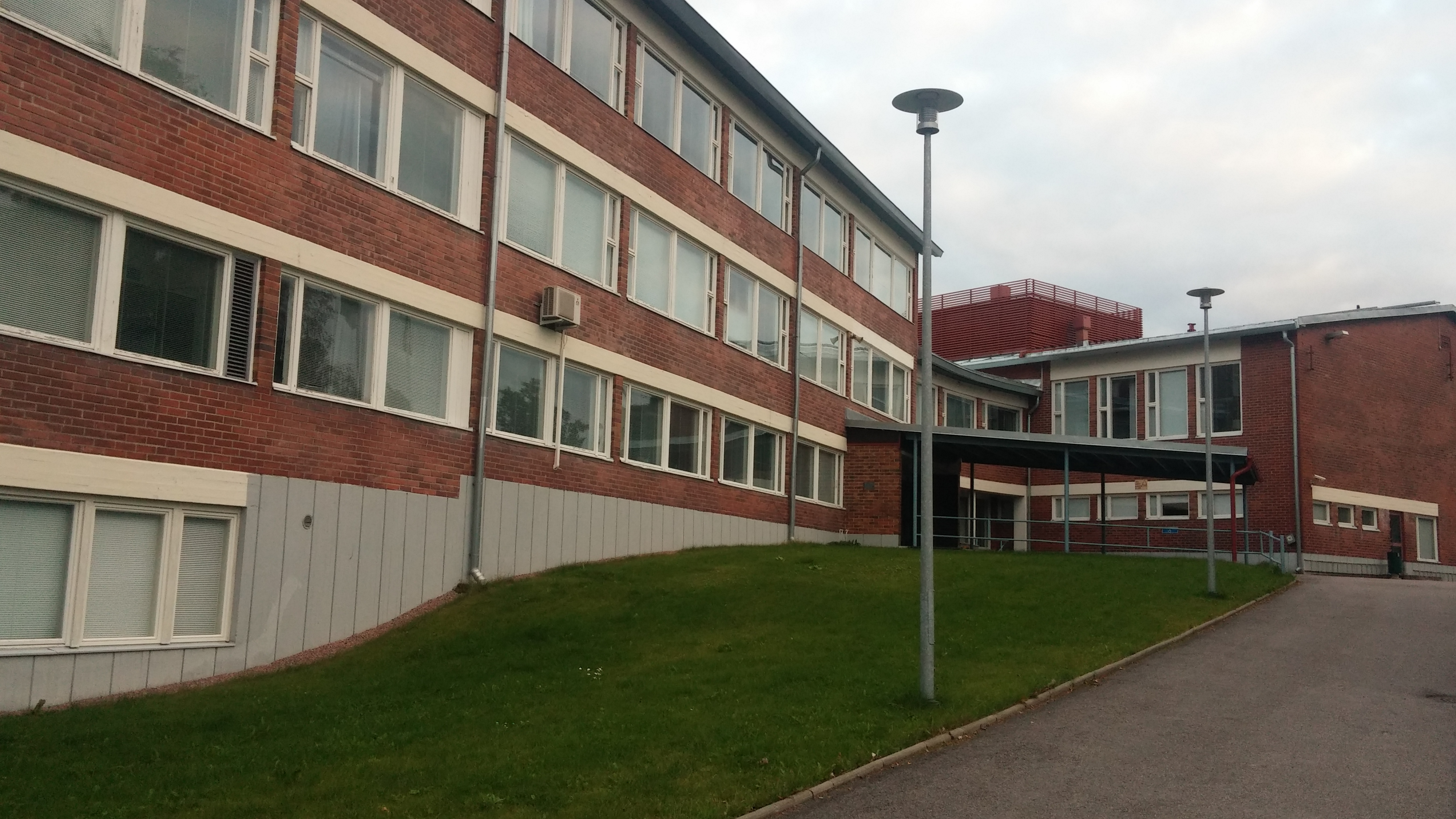 Mäkelänrinteen lukio